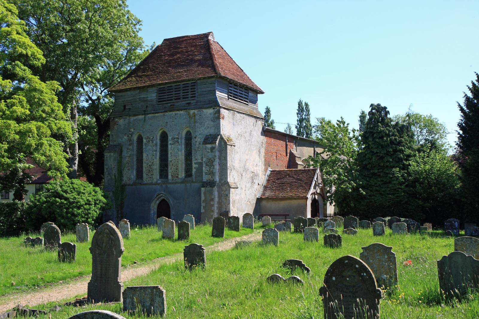 St Michael's parish church, Rumburgh, Suffolk, seen from west-southwest